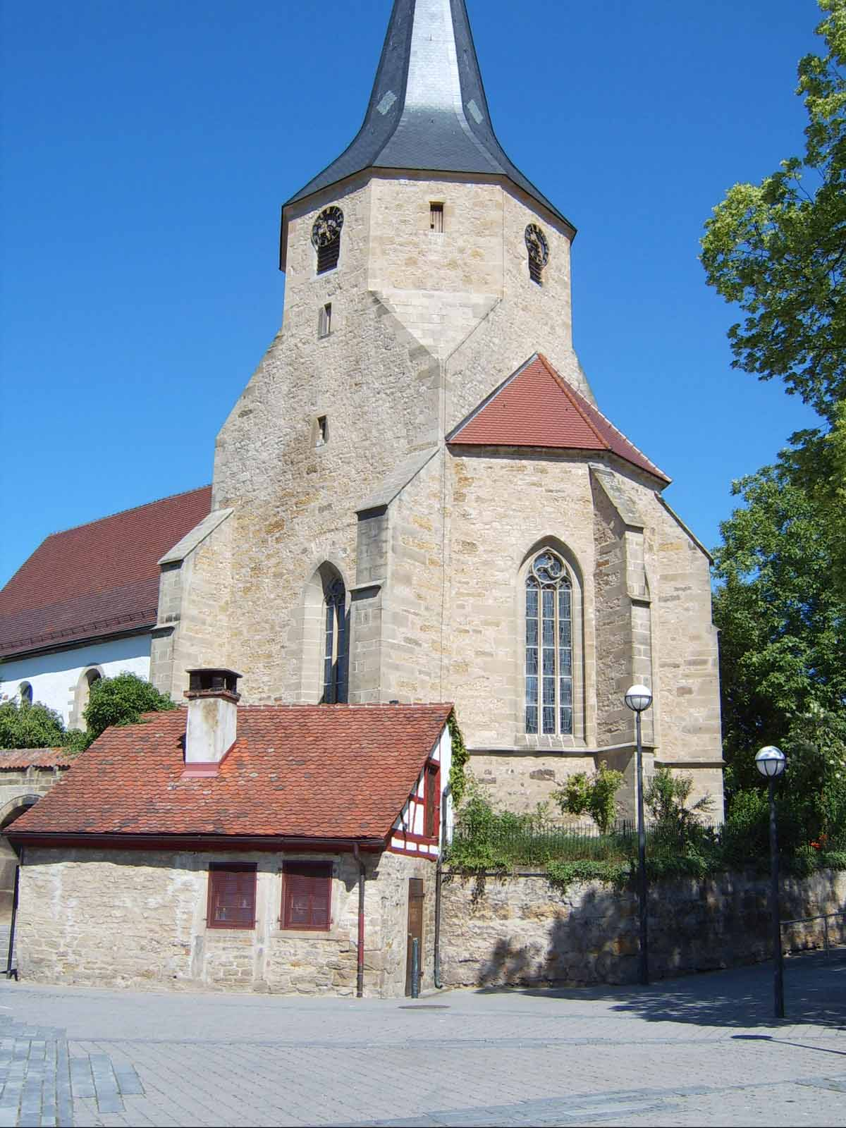 Tamm (Church-Castle); District of Ludwigsburg; Federal State of Baden-Württemberg; Germany